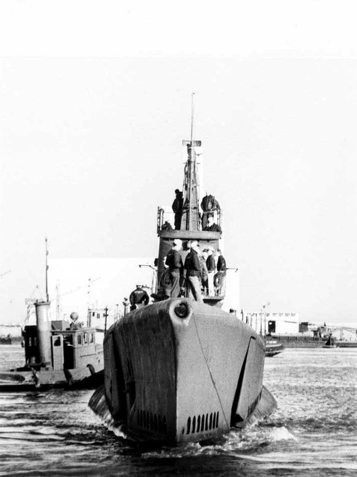 USS_Gurnard; Bow view of the Gurnard (SS-254), underway, off Mare Island CA., following an overhaul, 14 March, 1944. USN photo 1709-44, courtesy of .